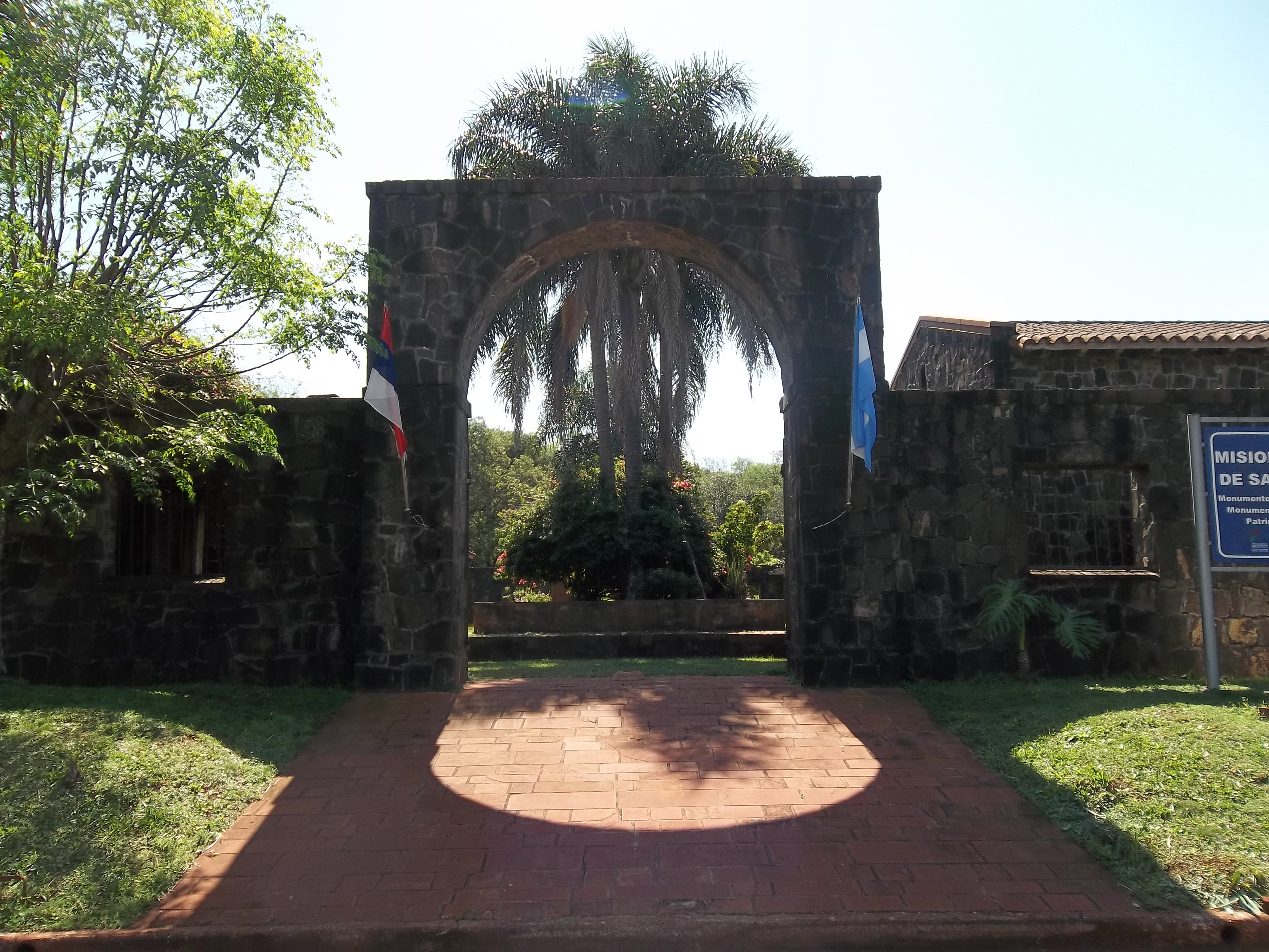 Main entrance of Santa María la Mayor.